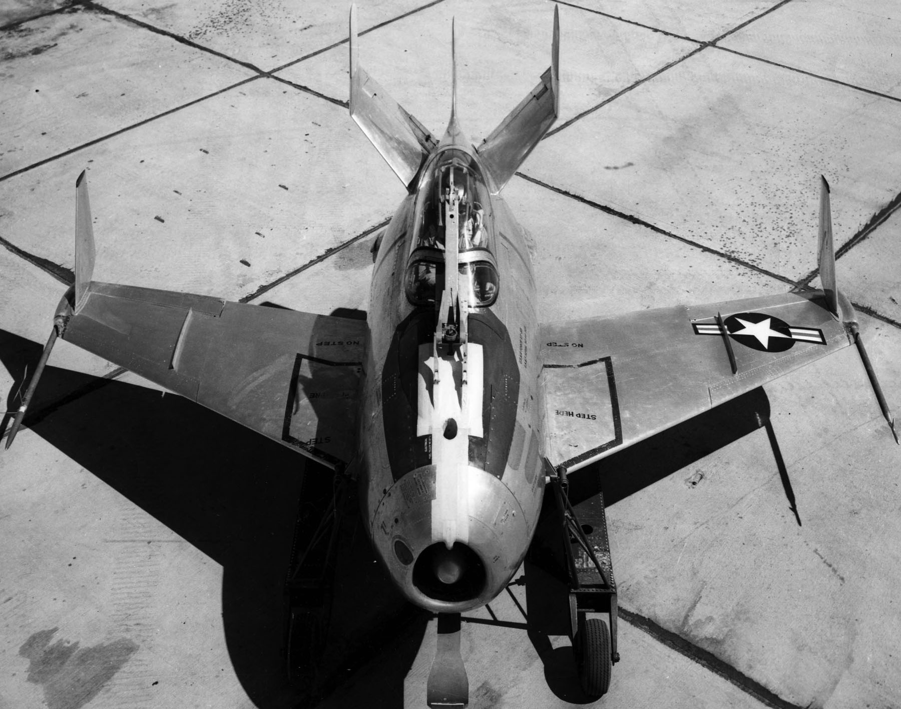 Overhead view of McDonnell XF-85 Goblin parasite fighter